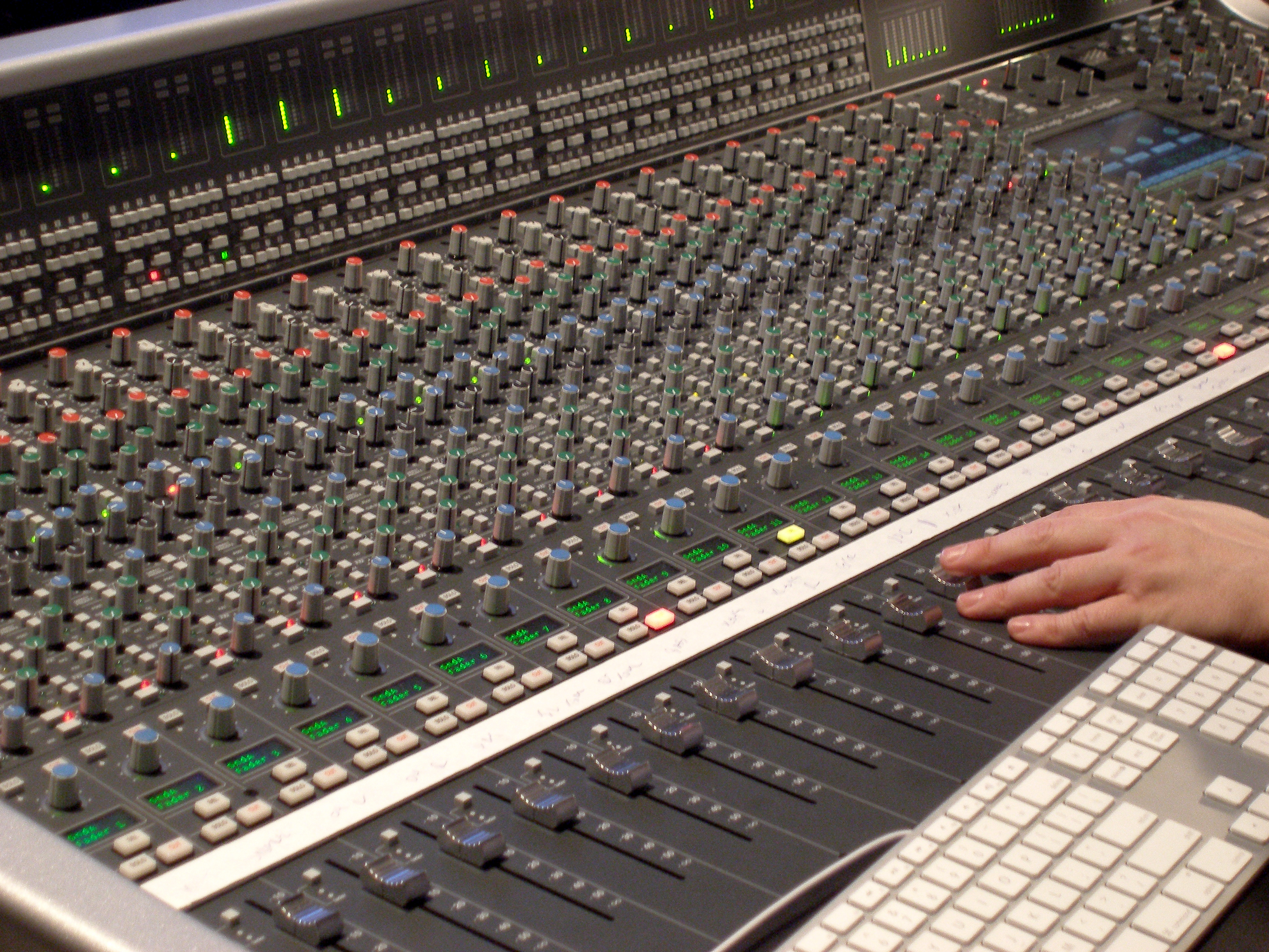 Performance Studio (Chicago)'s console SSL AWS 900+ Analogue Workstation System (analogue mixing console and DAW controller)